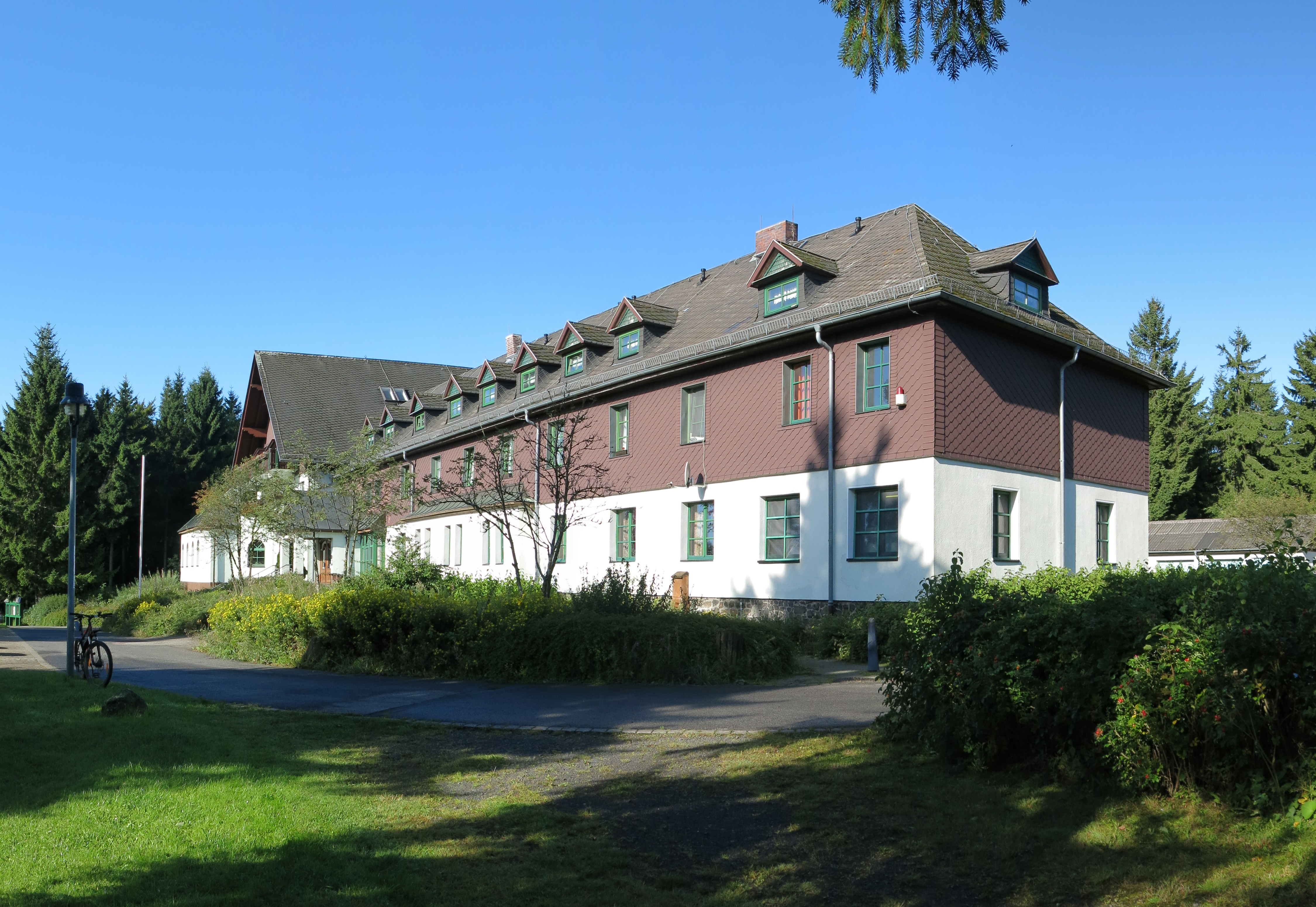 The Hotel Eisenacher Haus on the Ellenbogen in the Rhön Mountains.